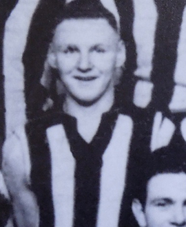 Photograph of Jim Flynn in 1896.